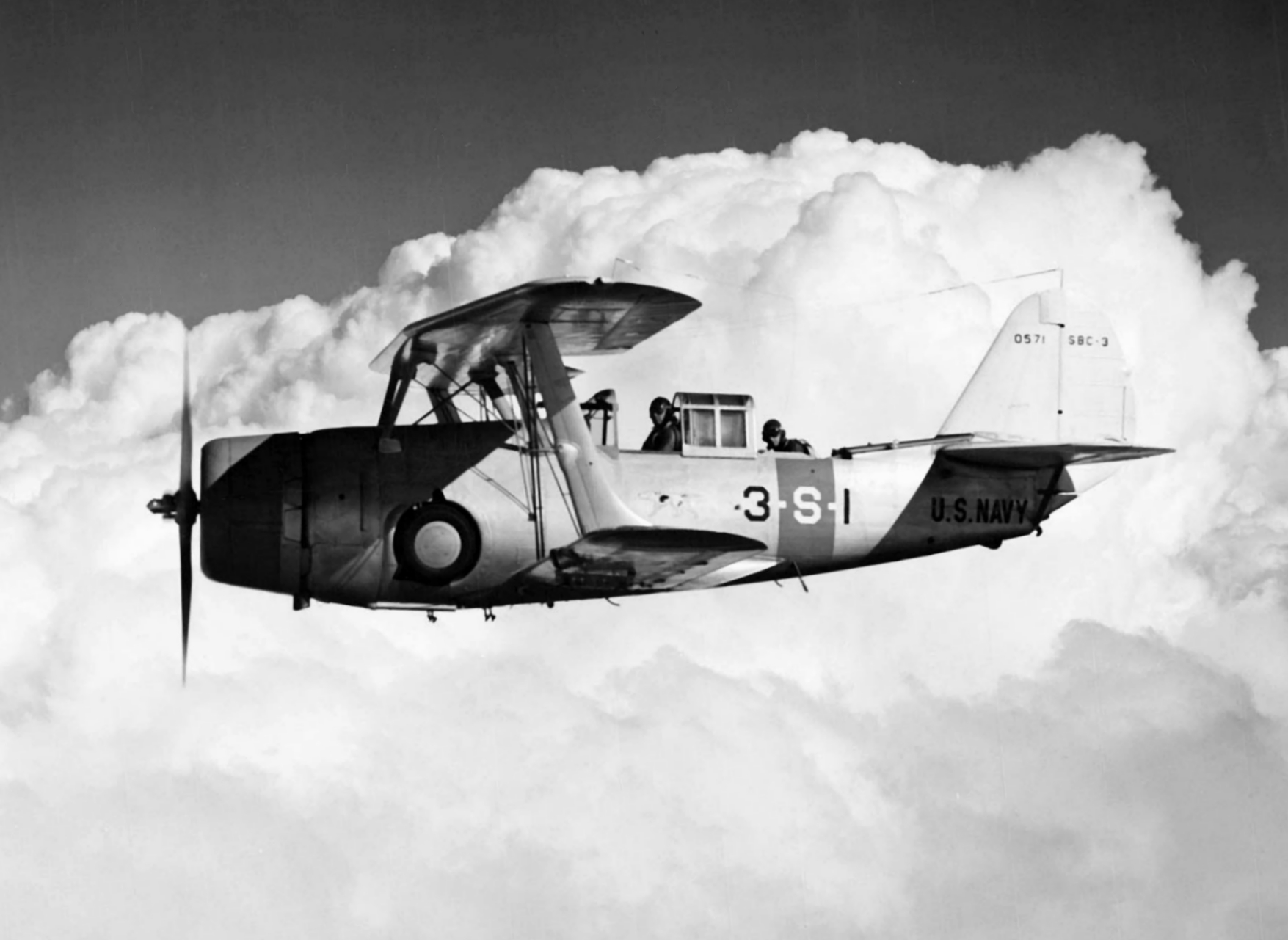 A U.S. Navy Curtiss SBC-3 Helldiver (BuNo 0571) assigned to Scouting Squadron Three (VS-3) pictured in flight near San Diego, California (USA). The side number "3-S-1" indicates that it is the squadron commander's assigned aircraft. Normally assigned to USS Saratoga (CV-3), VS-3 flew SBC-3s during the period 1938-1940. The SBC-3 BuNo 0571 ended its life as a ground instructional airframe at Naval Air Station Jacksonville, Florida, and was scrapped on 31 May 1943.